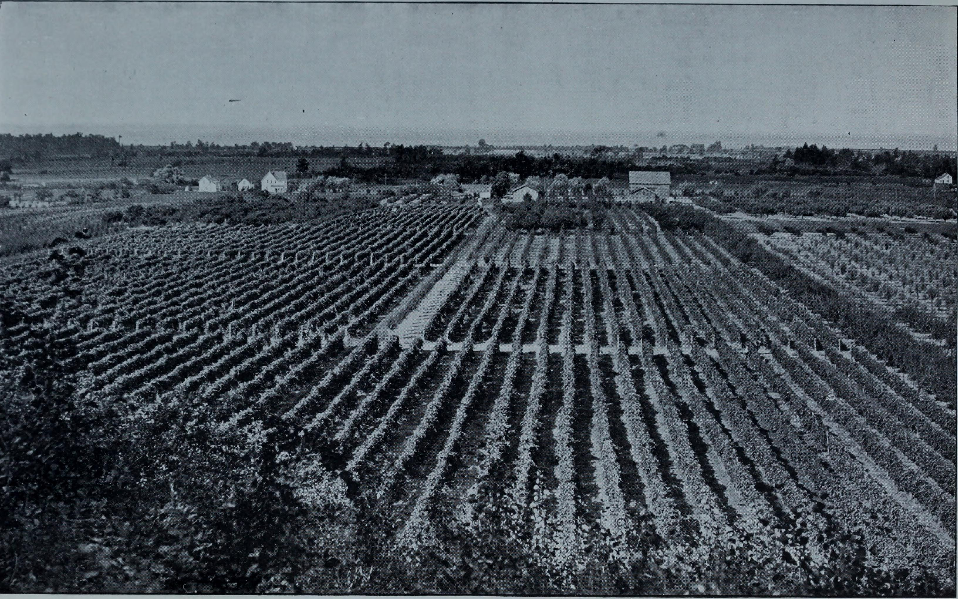 Title: Canada : its history, productions and natural resources Year: 1905 (1900s) Authors: Canada. Dept. of Agriculture Fisher, Sydney Arthur, 1850-1920 Liége. Exposition universelle et internationale, 1905 Subjects: Publisher: Ottawa Text Appearing Before Image: ' Text Appearing After Image: '